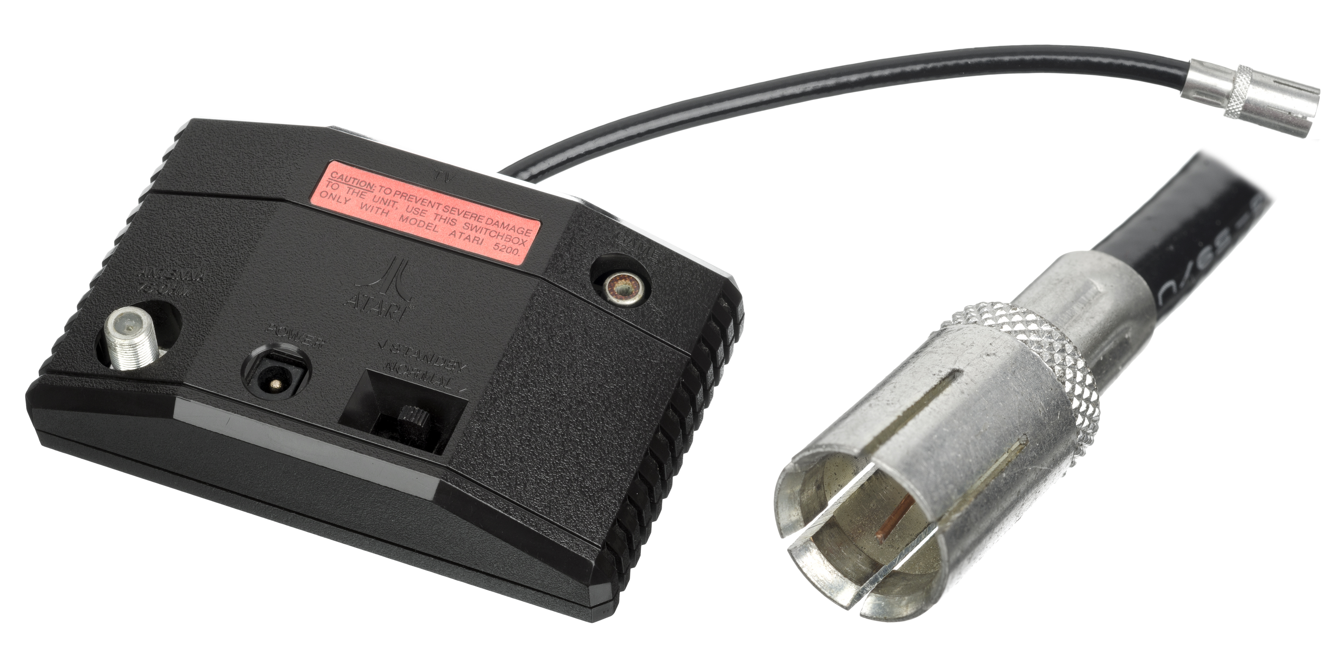 The switchbox for the Atari 5200, a gaming system released by Atari in 1982. The Atari 5200's switchbox is notable as it carries both the power and A/V signal to the system through the same wire. The switchbox is absolutely necessary for playing or using the system.